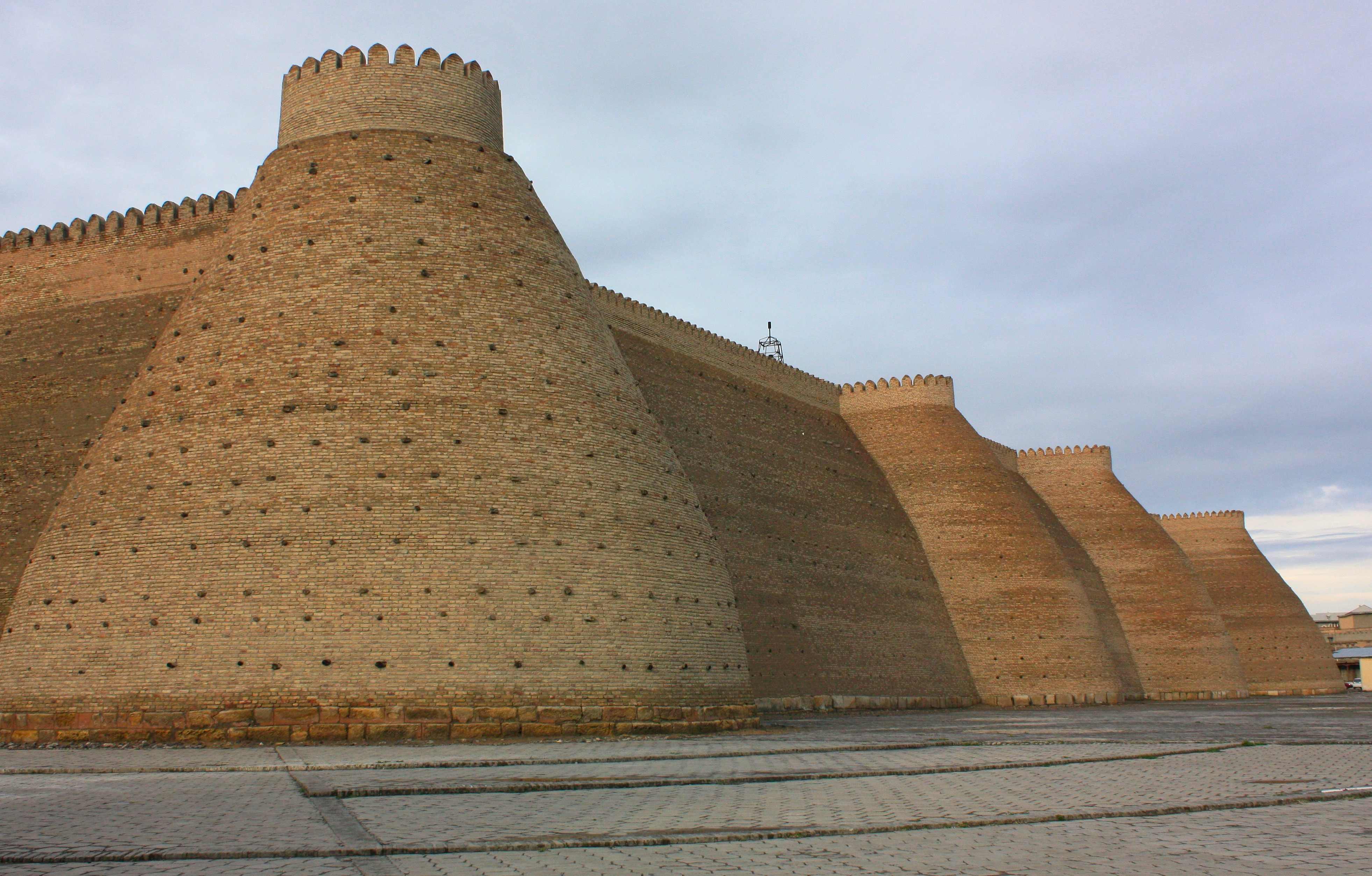 A view of the Ark Fortress in Bukhara, Uzbekistan